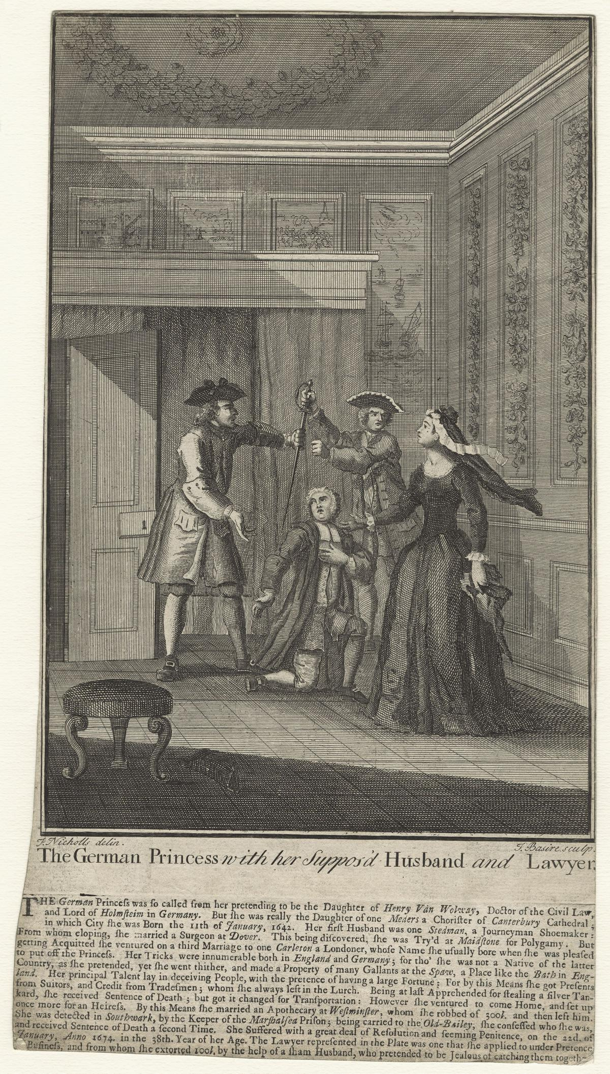 Mary Carleton (née Moders) ('The German Princess with her Suppos'd Husband and Lawyer'), by James Basire (died 1802). All images in this batch have been confirmed as author died before 1939 according to the official death date listed by the NPG.